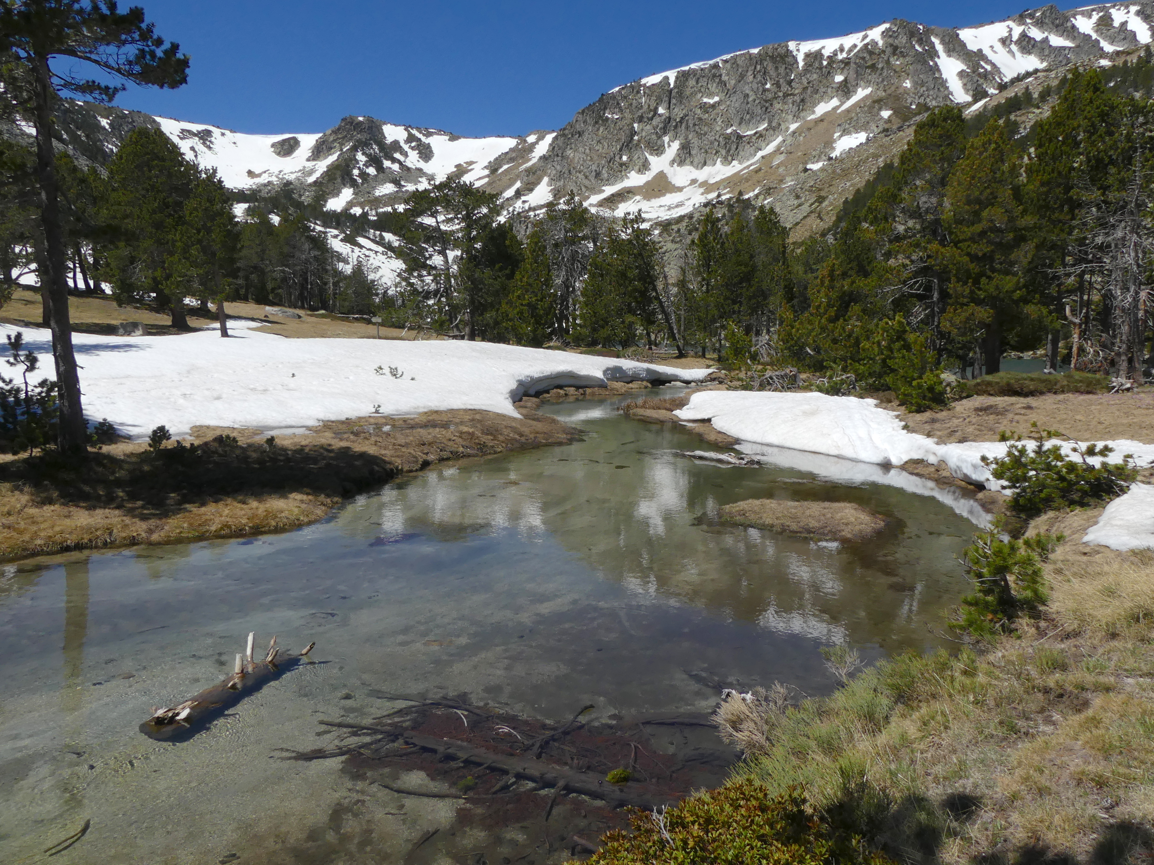 Gore Estelat (Nohèdes Pond); Mountain pond at 2022 m; southern slope of Madrès; RNN Nohèdes